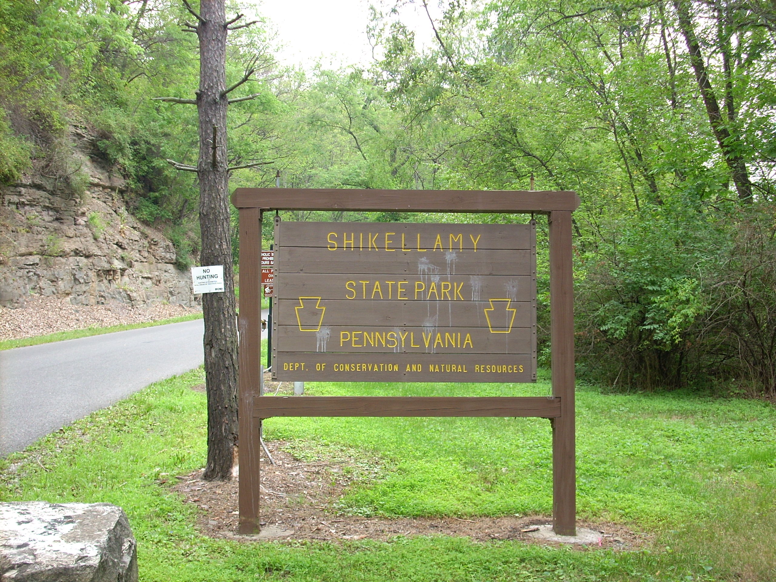 Entrance sign to the scenic overlook section of Shikellamy State Park, Union County, Pennsylvania, USA.